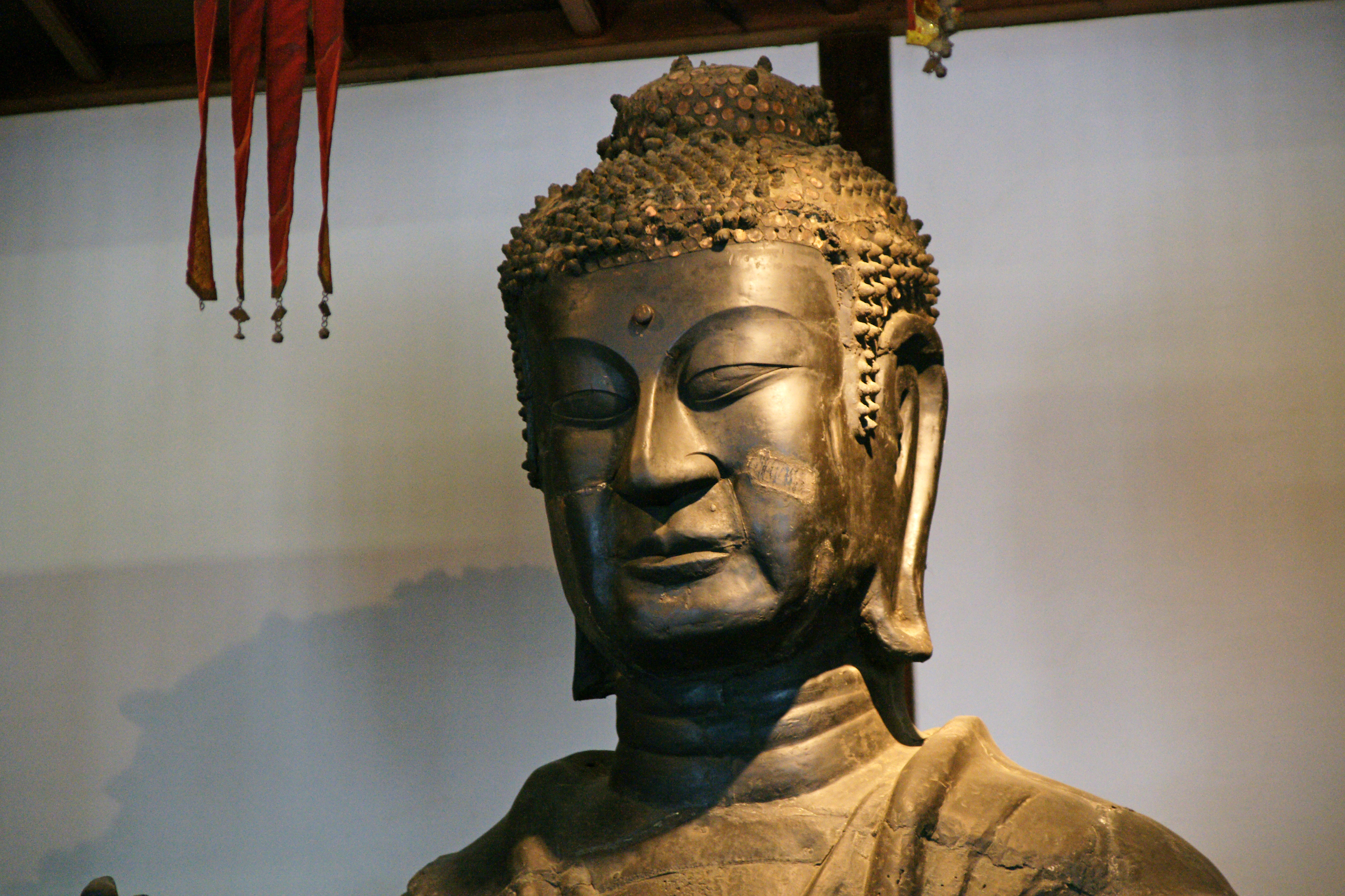 Asuka-dera in Asuka, Nara Prefecture, Japan.